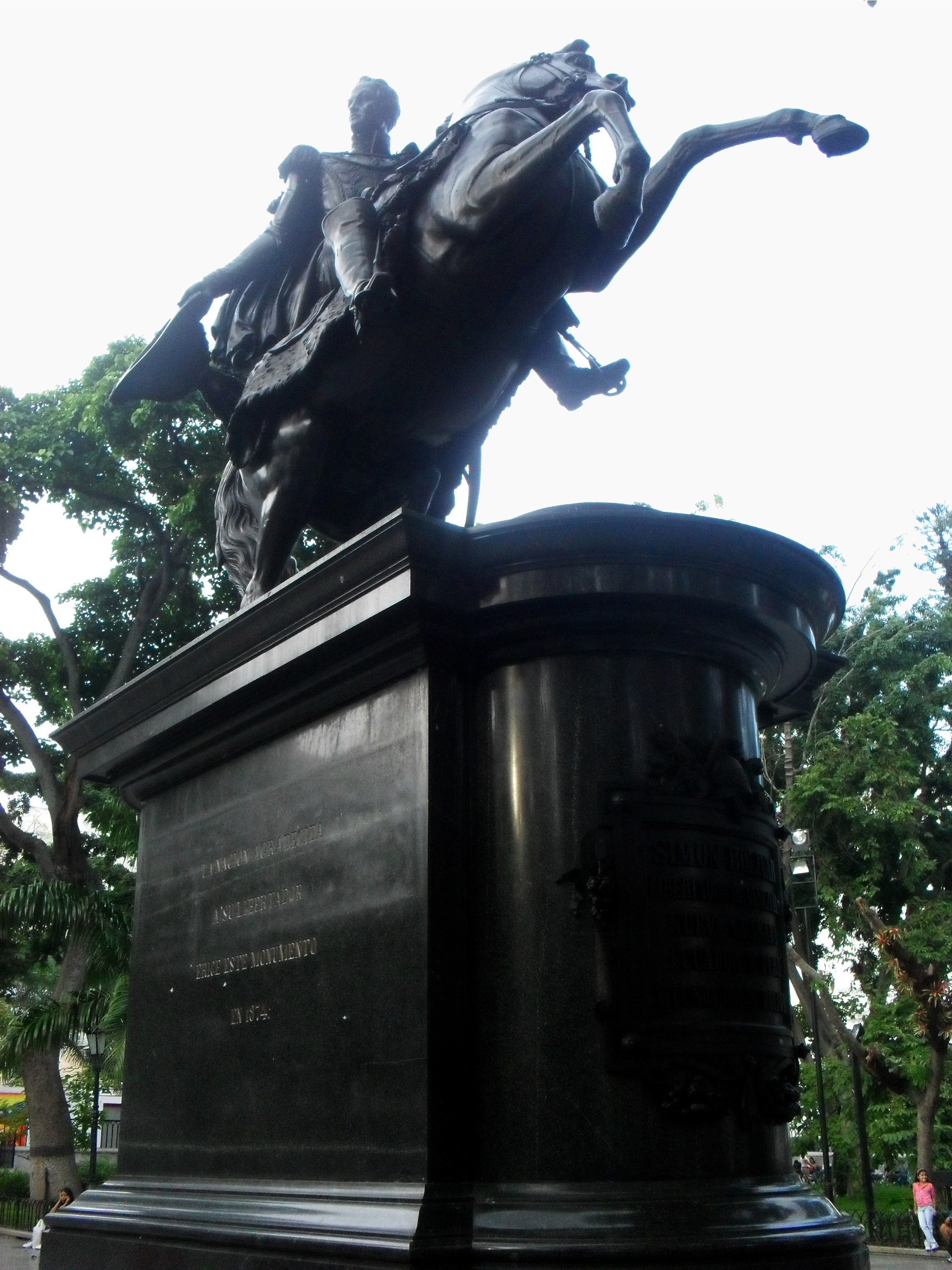 Simón Bolívar equestrian sculpture on Plaza Bolívar, Caracas